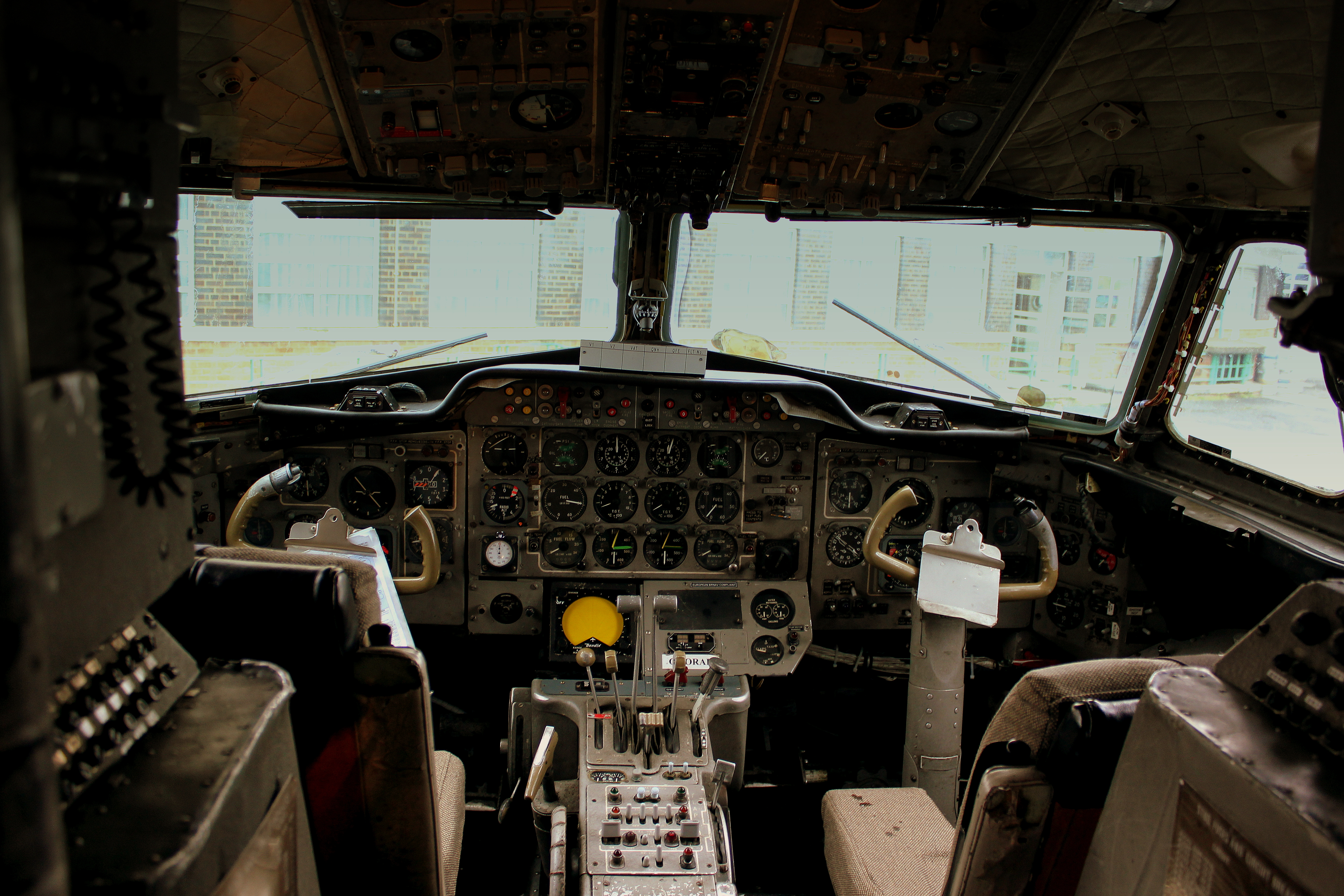 NOSE SECTION OF G-ORAL HS748 SRS 1 AT LIVERPOOL AIRPORT (OLD TERMINAL) JAN 2013